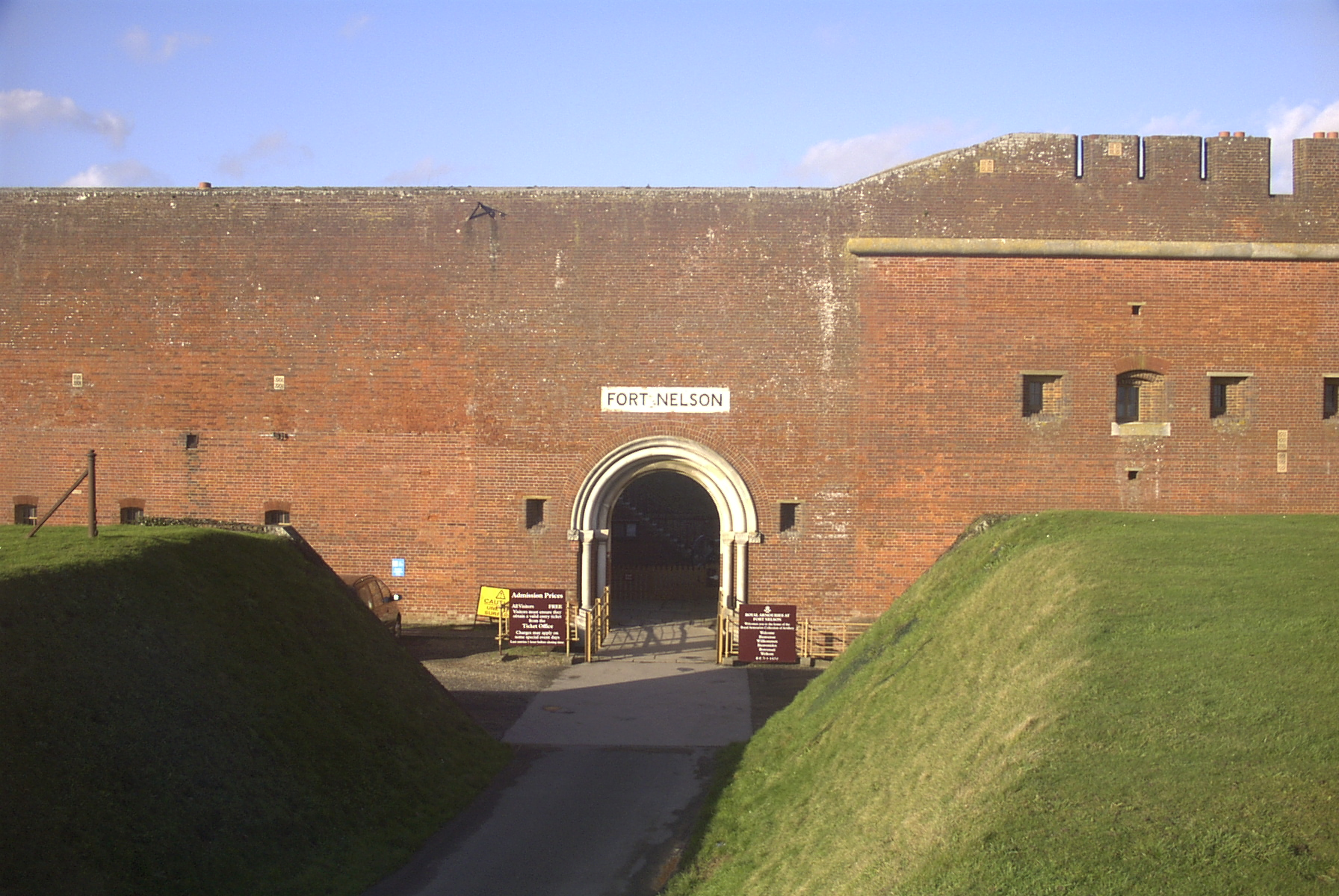 Royal Armouries Fort Nelson, Portsmouth. Main entrance